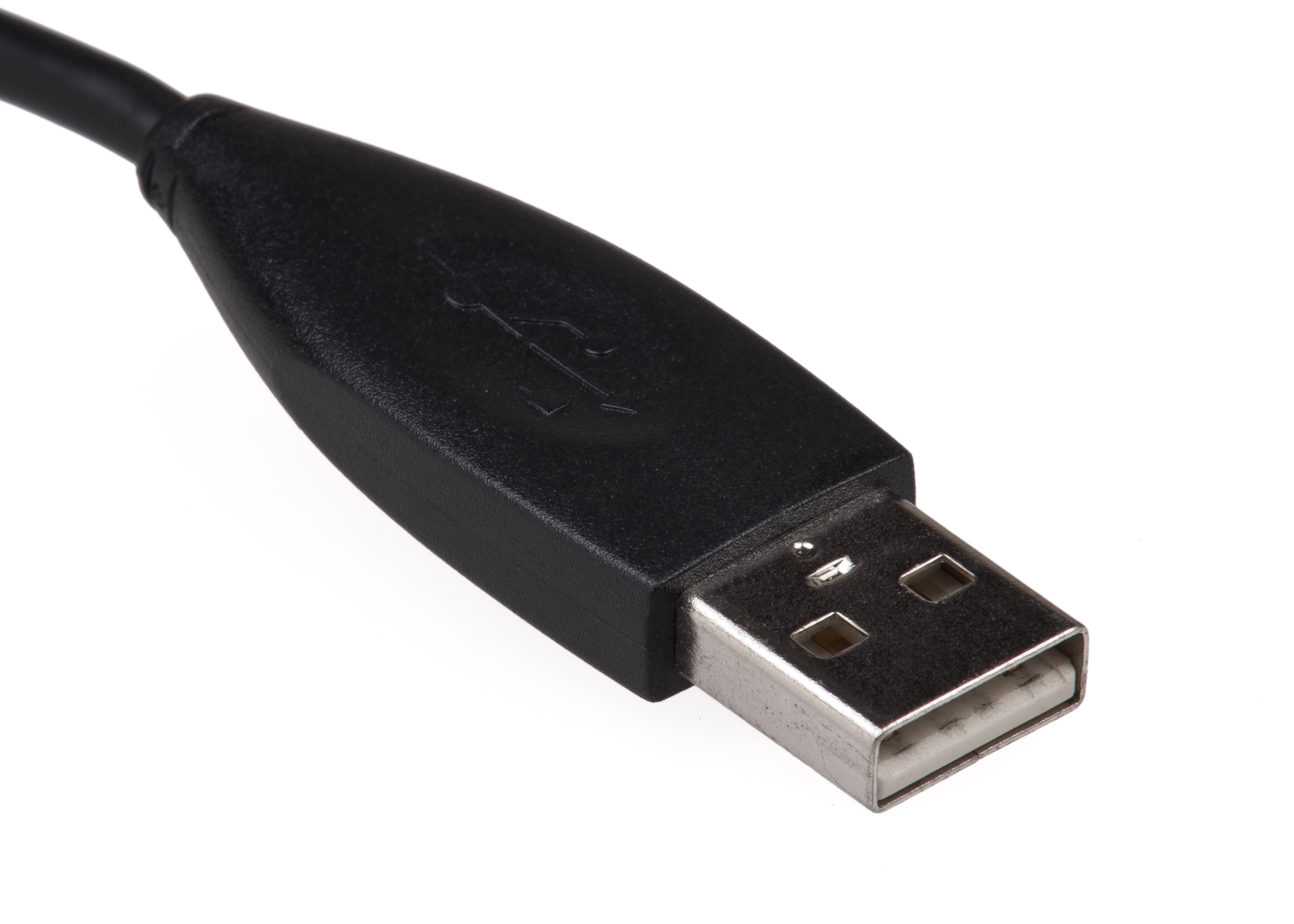 A standard USB connector.